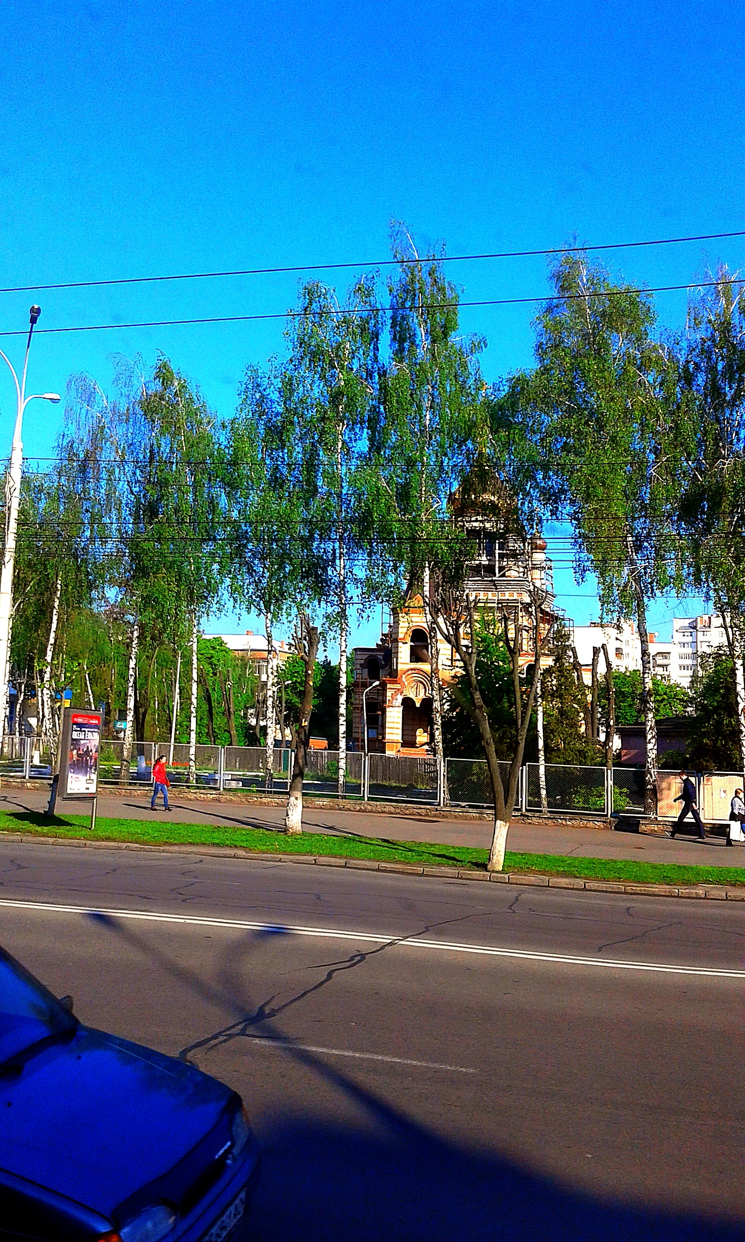 (6) NEW ORTHODOX CATHEDRAL IN CITY OF VINNYTSIA STATE OF UKRAINE PHOTOGRAPH BY VIKTOR O LEDENYOV 20160427